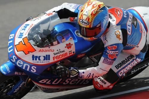 Russell Gomez motoGP